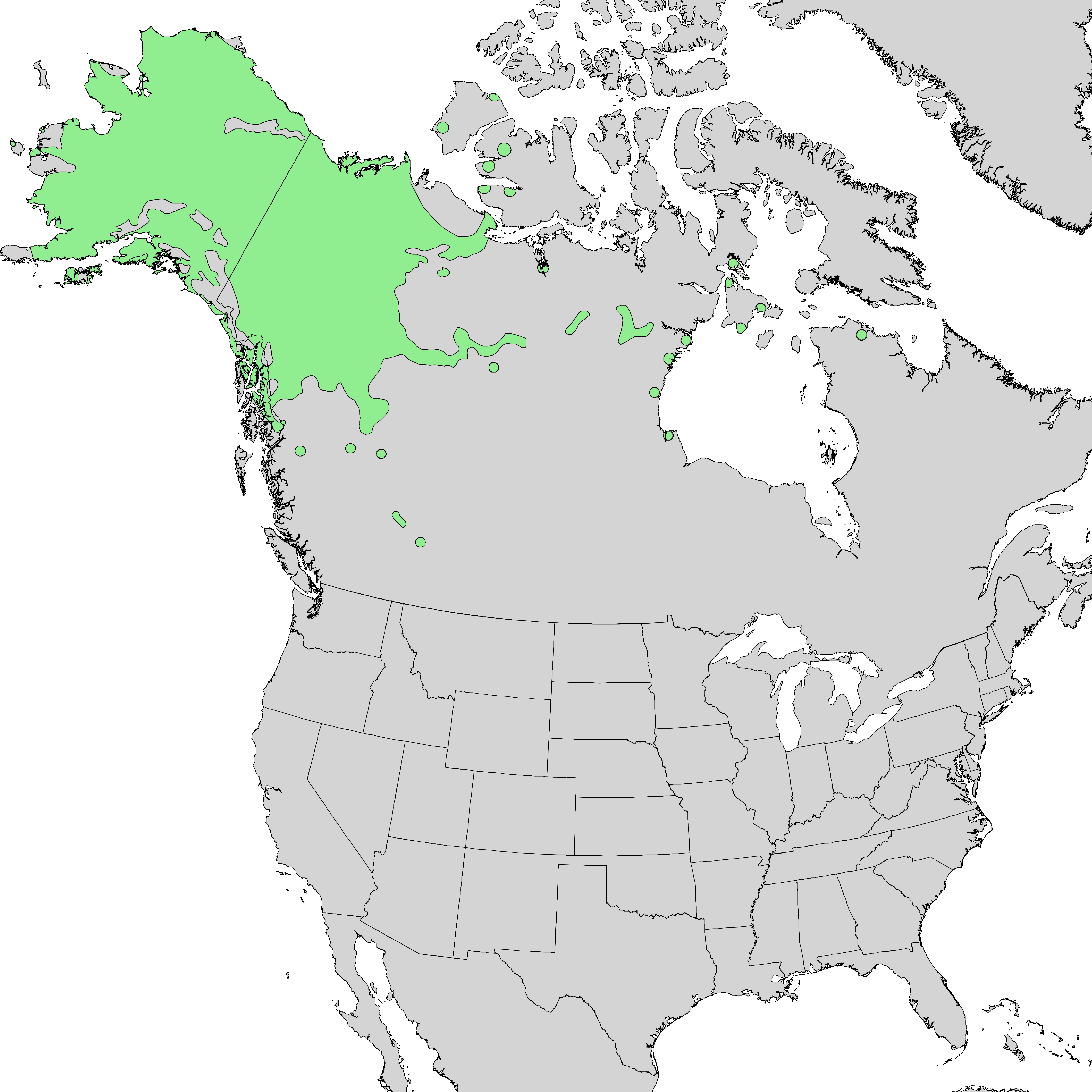 Natural distribution map for Salix alaxensis (feltleaf willow)